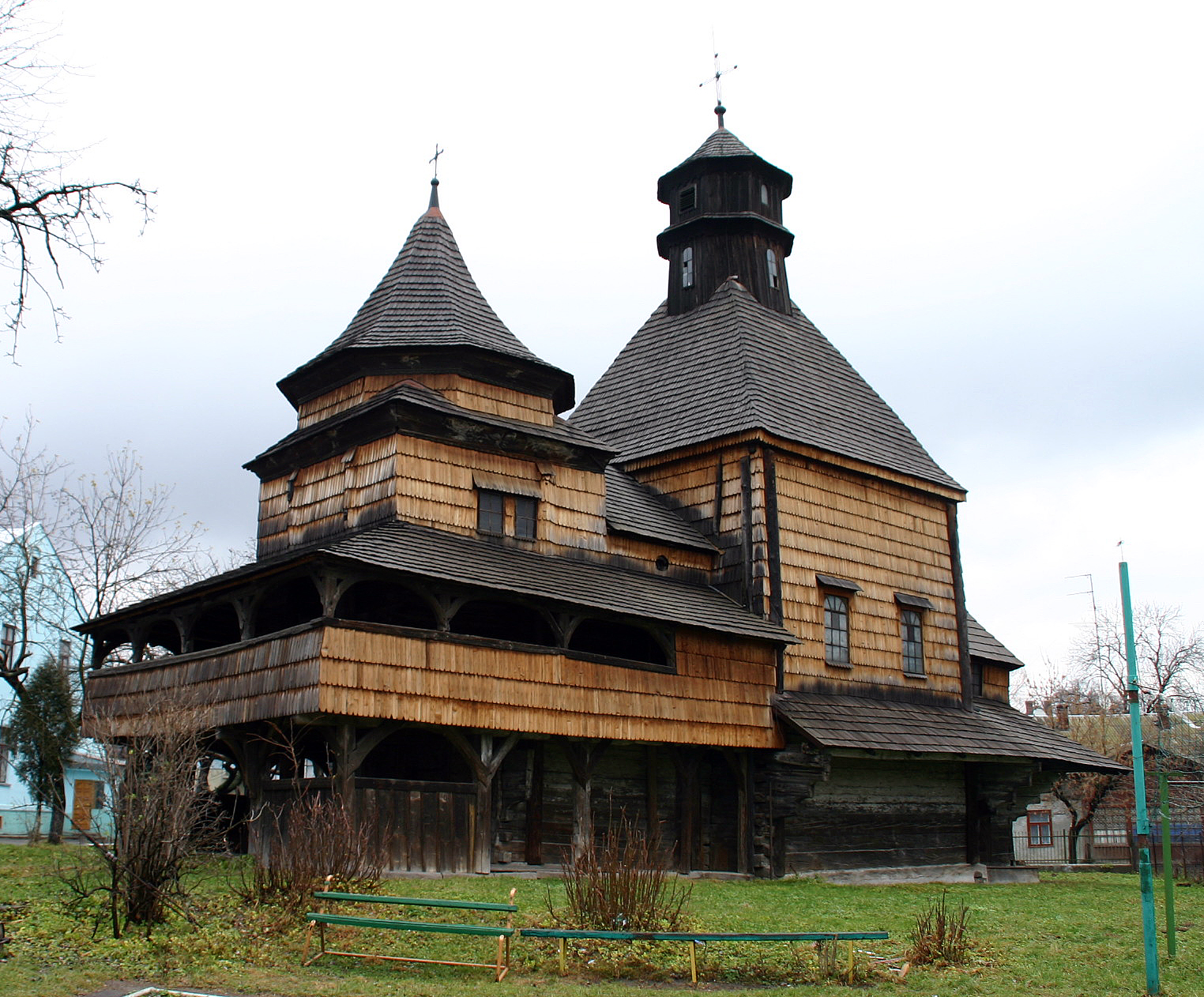 Church of the Exaltation of the Holy Cross, Drohobych. built before 1636